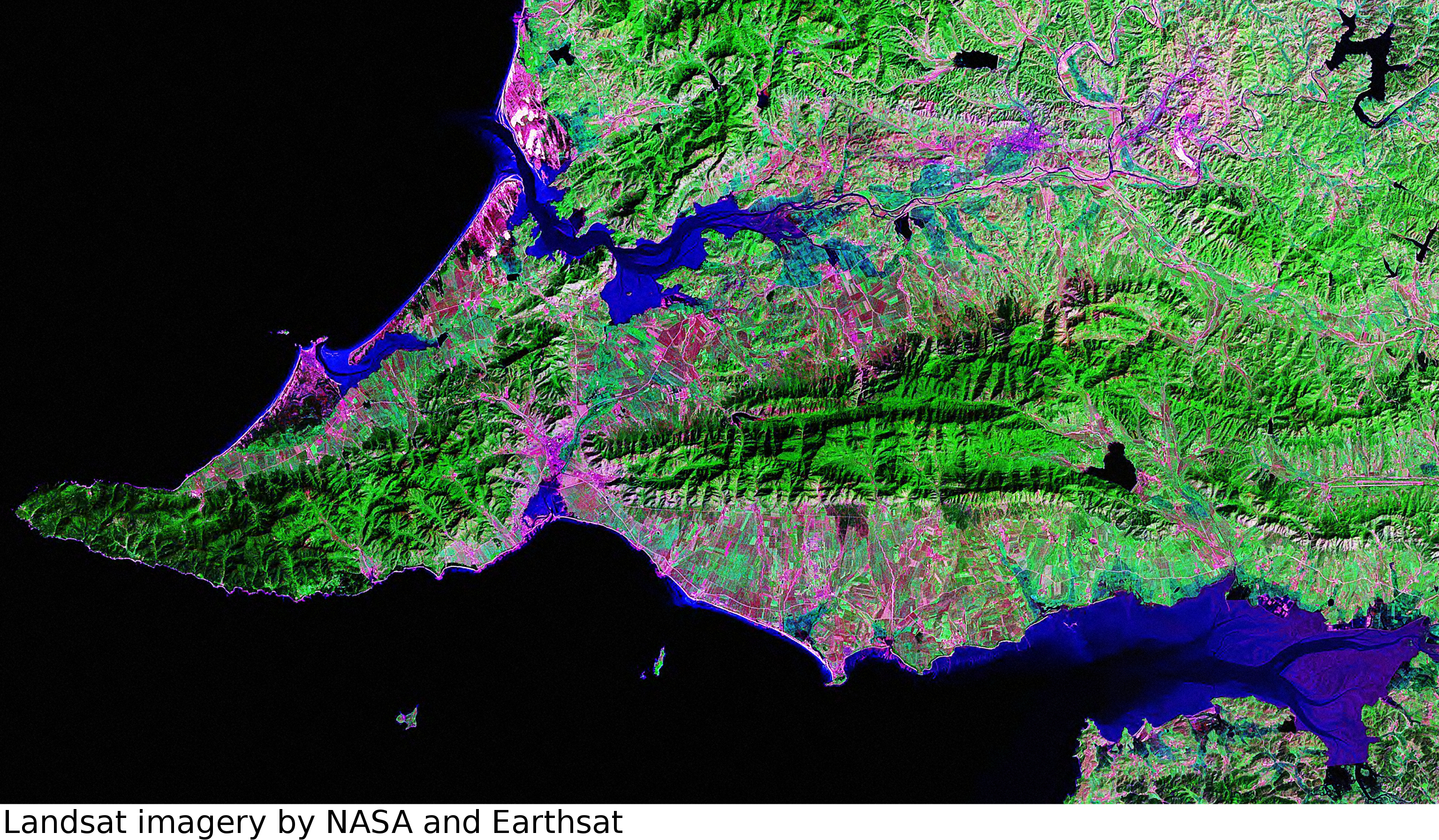 Ryongyon County, Changsan Cape in NASA Landsat images